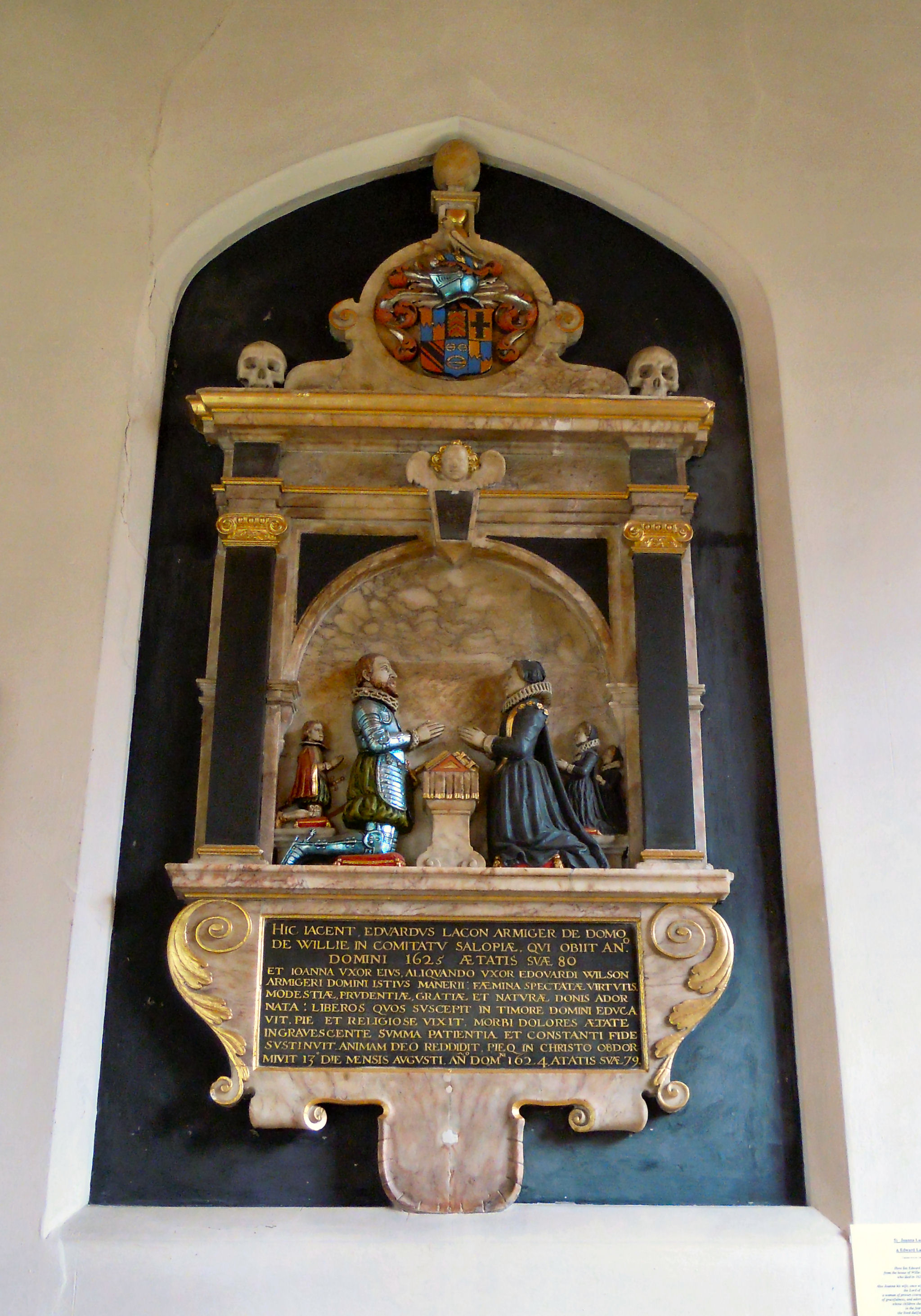 The tomb of Edward (died 1624) and Joanna Lacon (died 1625) in the chancel of the Church of All Saints, Willian